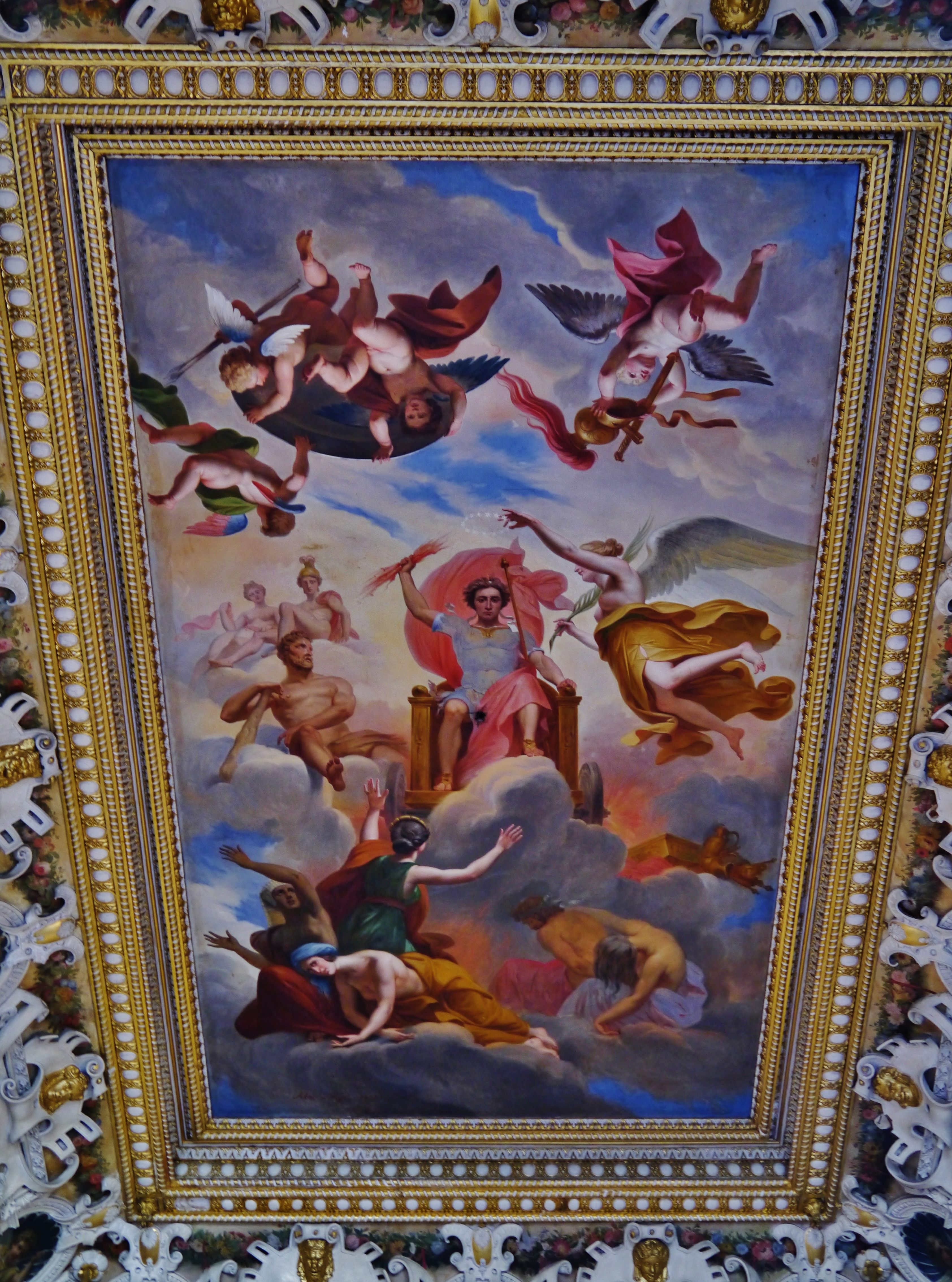 Ceiling of King's Staircase of Fontainebleau Palace, Fontainebleau, Département of Seine-et-Marne, Region of Île-de-France, France